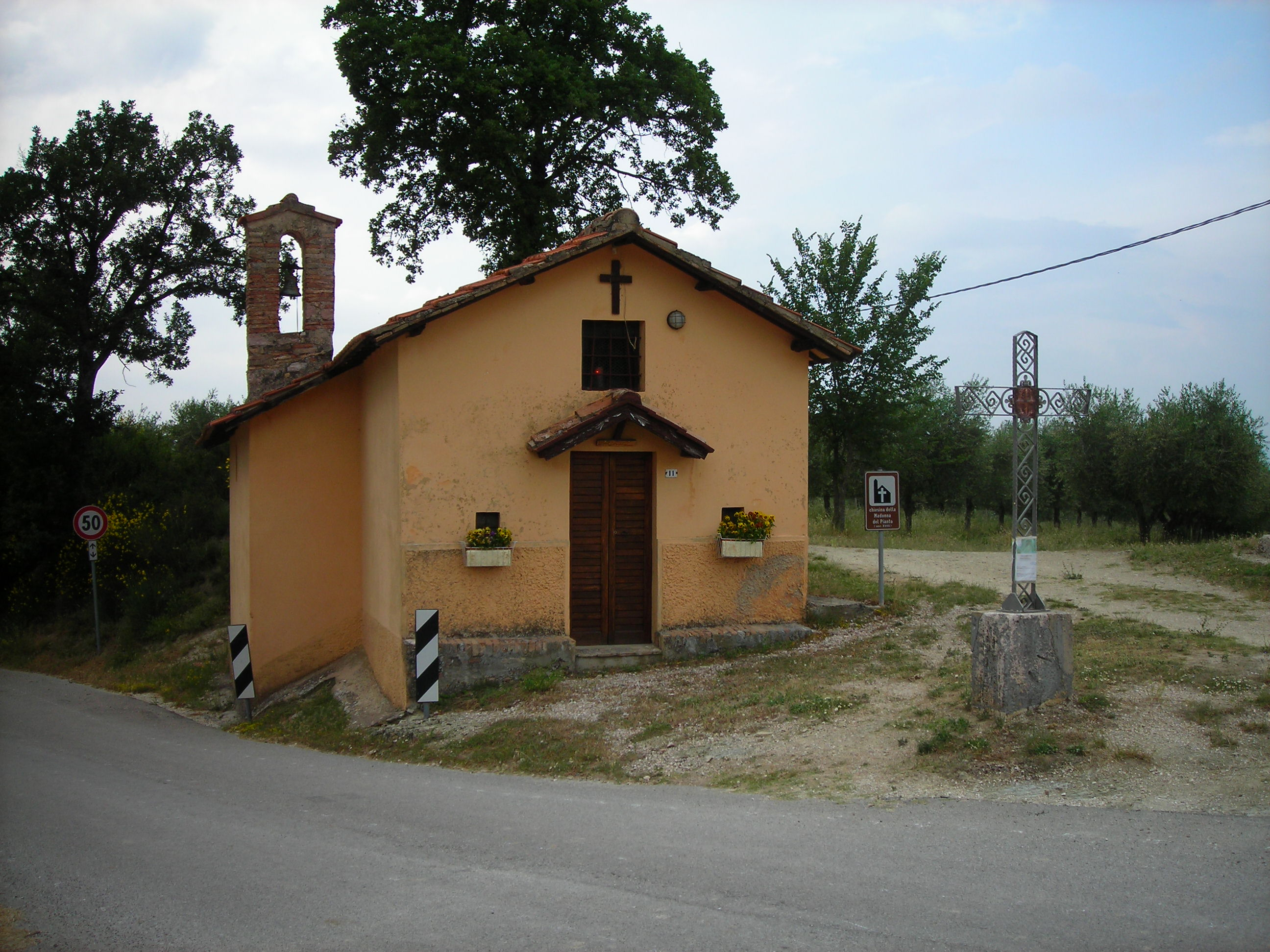 Small church of Madonna del Pianto, San Felice, Bastardo, Giano dell'Umbria, Perugia, Umbria, italy